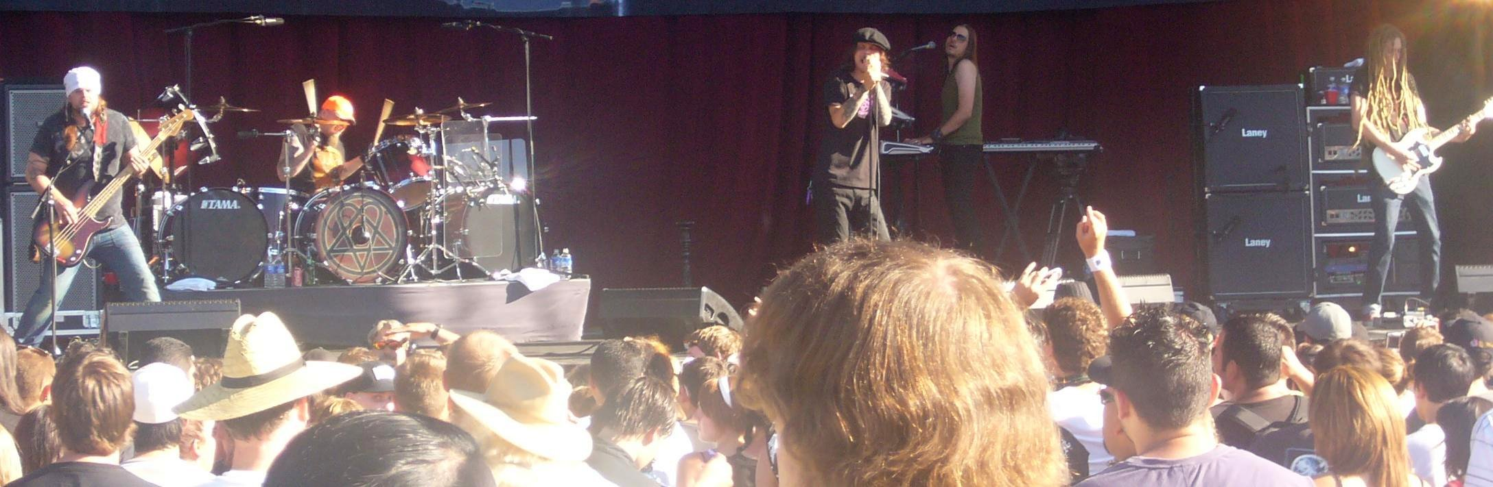 Author: Omar Otiniano Nationality: Peruvian Photo taken At: Marysville, CA